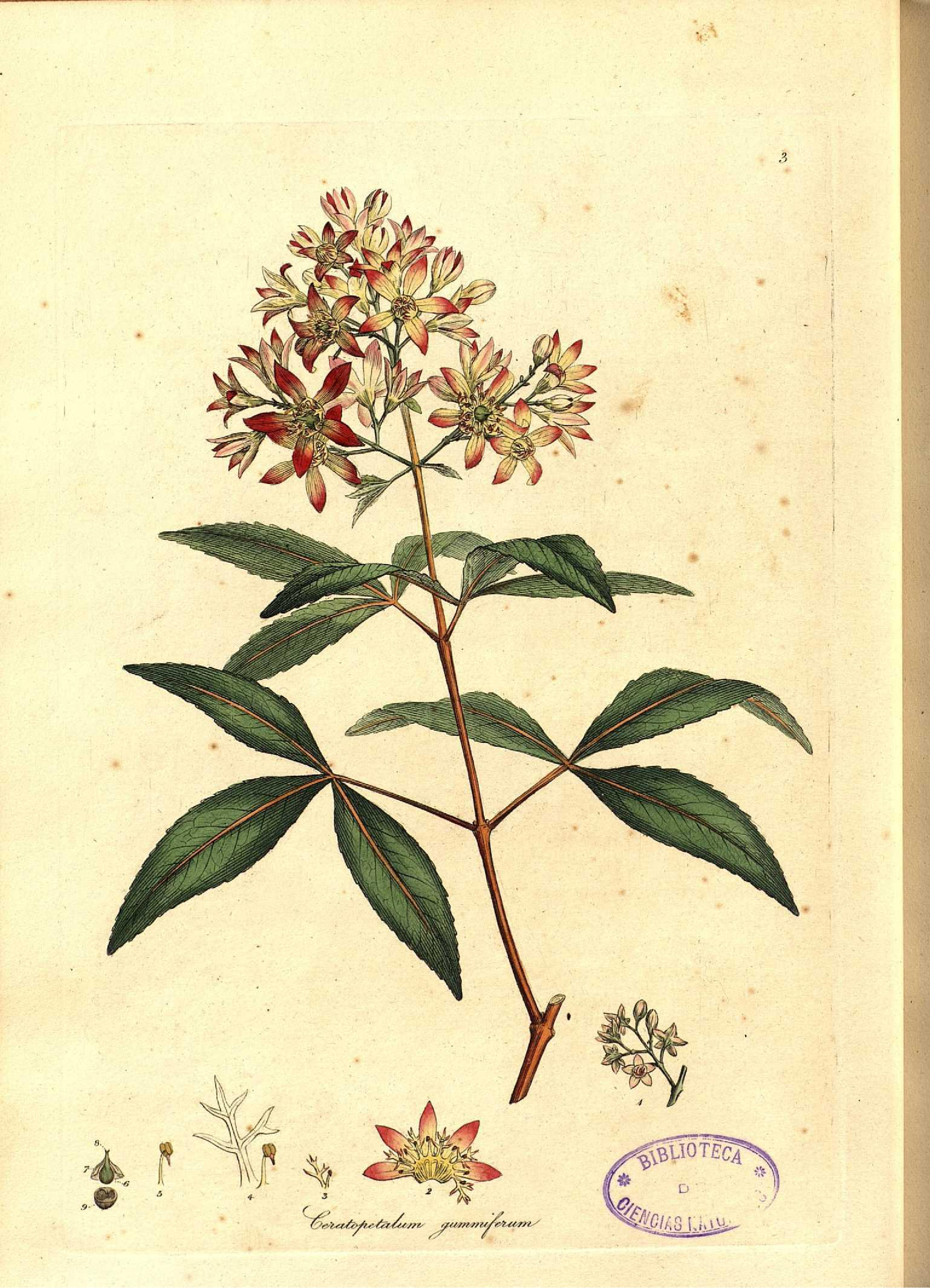 Ceratopetalum gummiferum